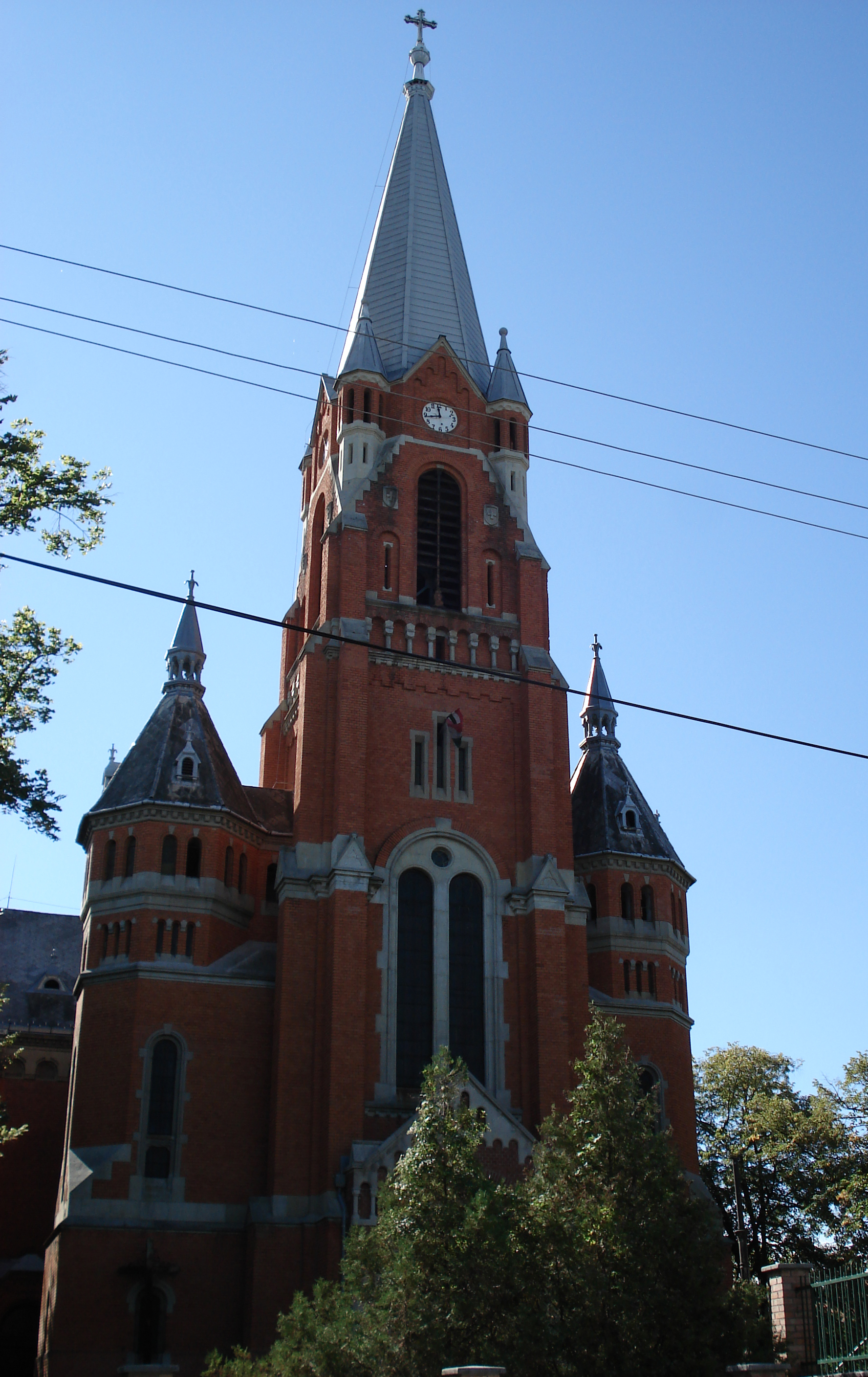 Roman catholic church in Diósgyőr-Vasgyár, Téglagyári street, Miskolc, Hungary